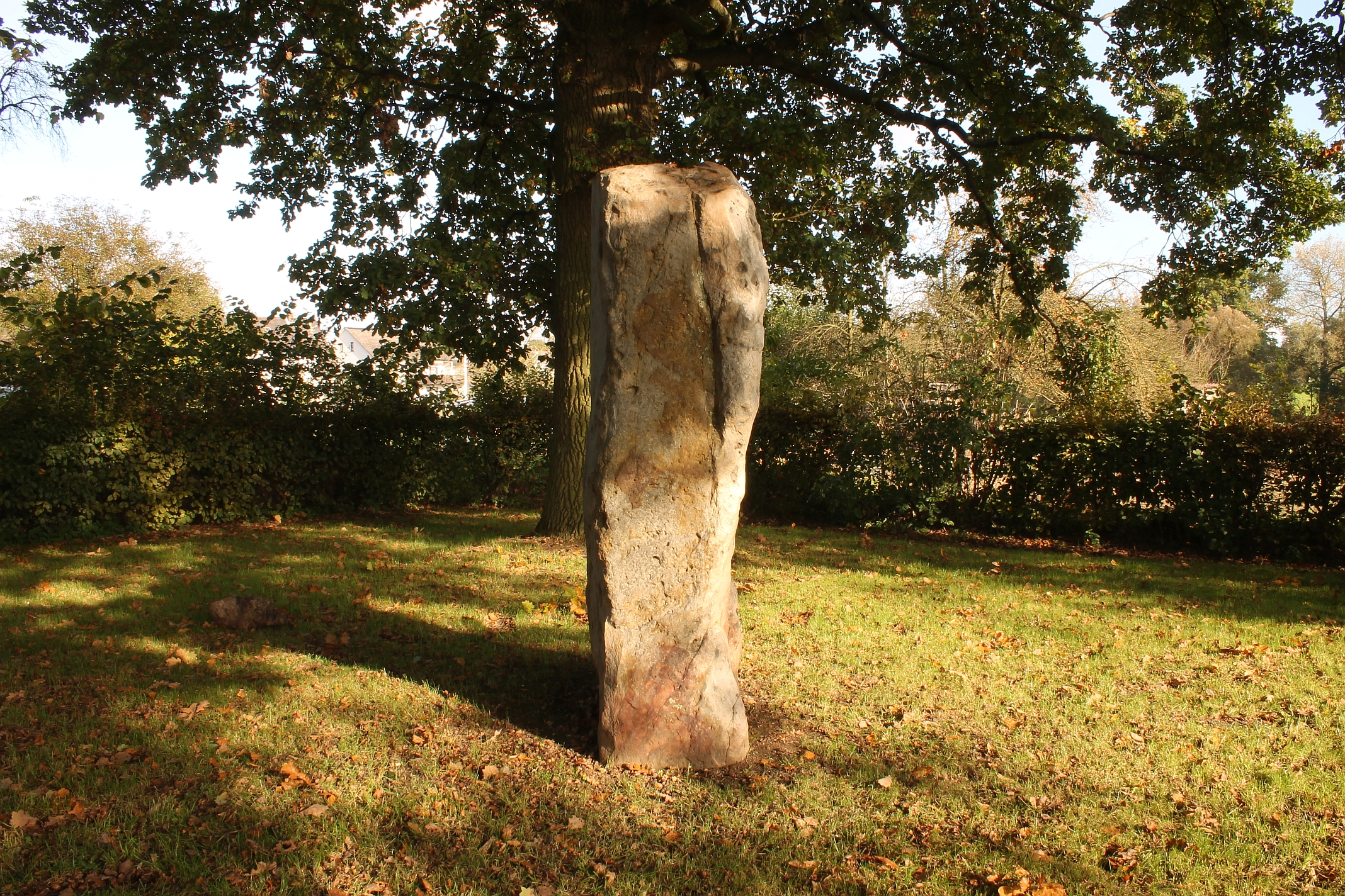 Wotanstein from the southwest